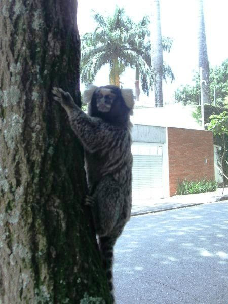 Callithrix jacchus in urban places